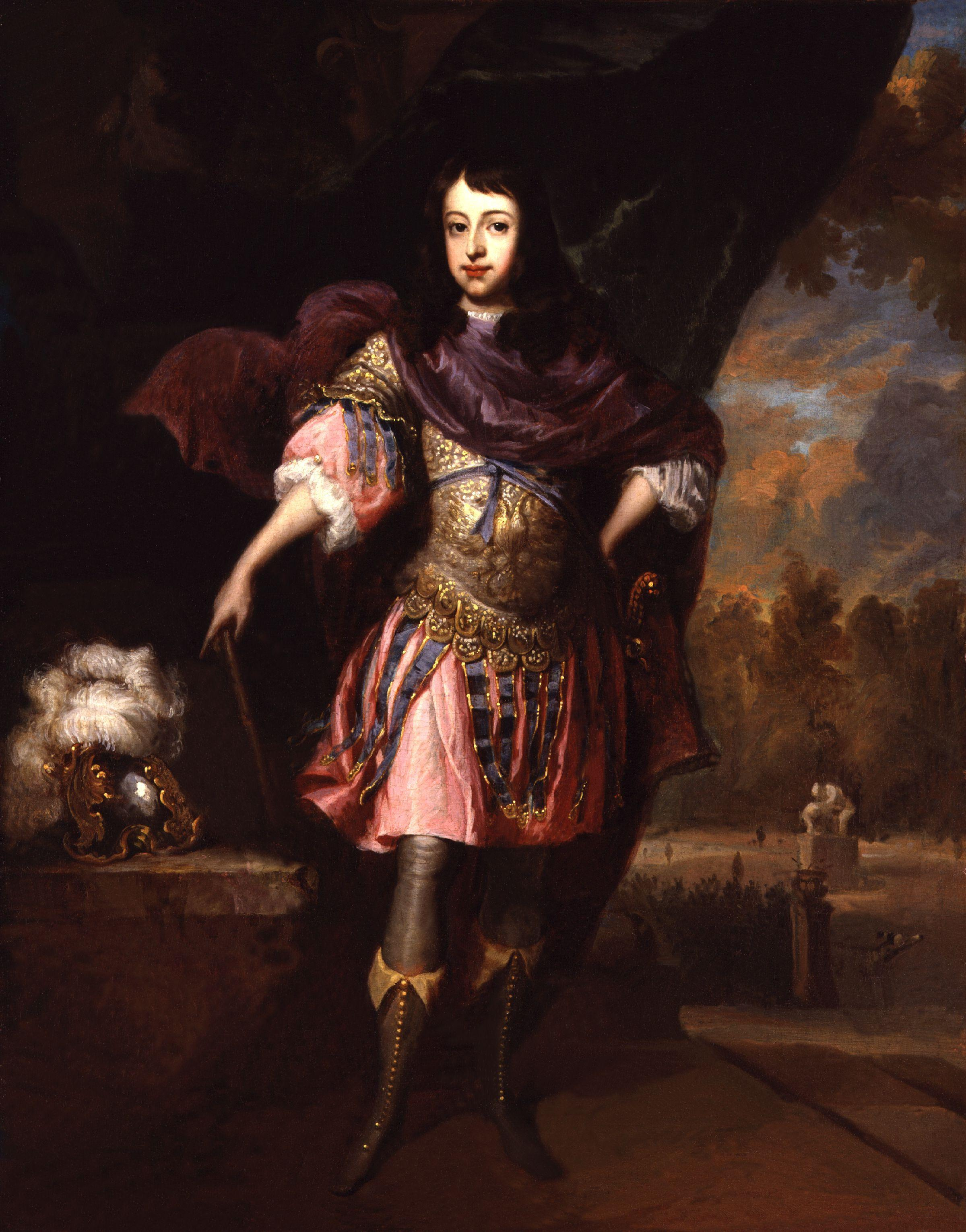 All images in this batch have been confirmed as author died before 1939 according to the official death date listed by the NPG.